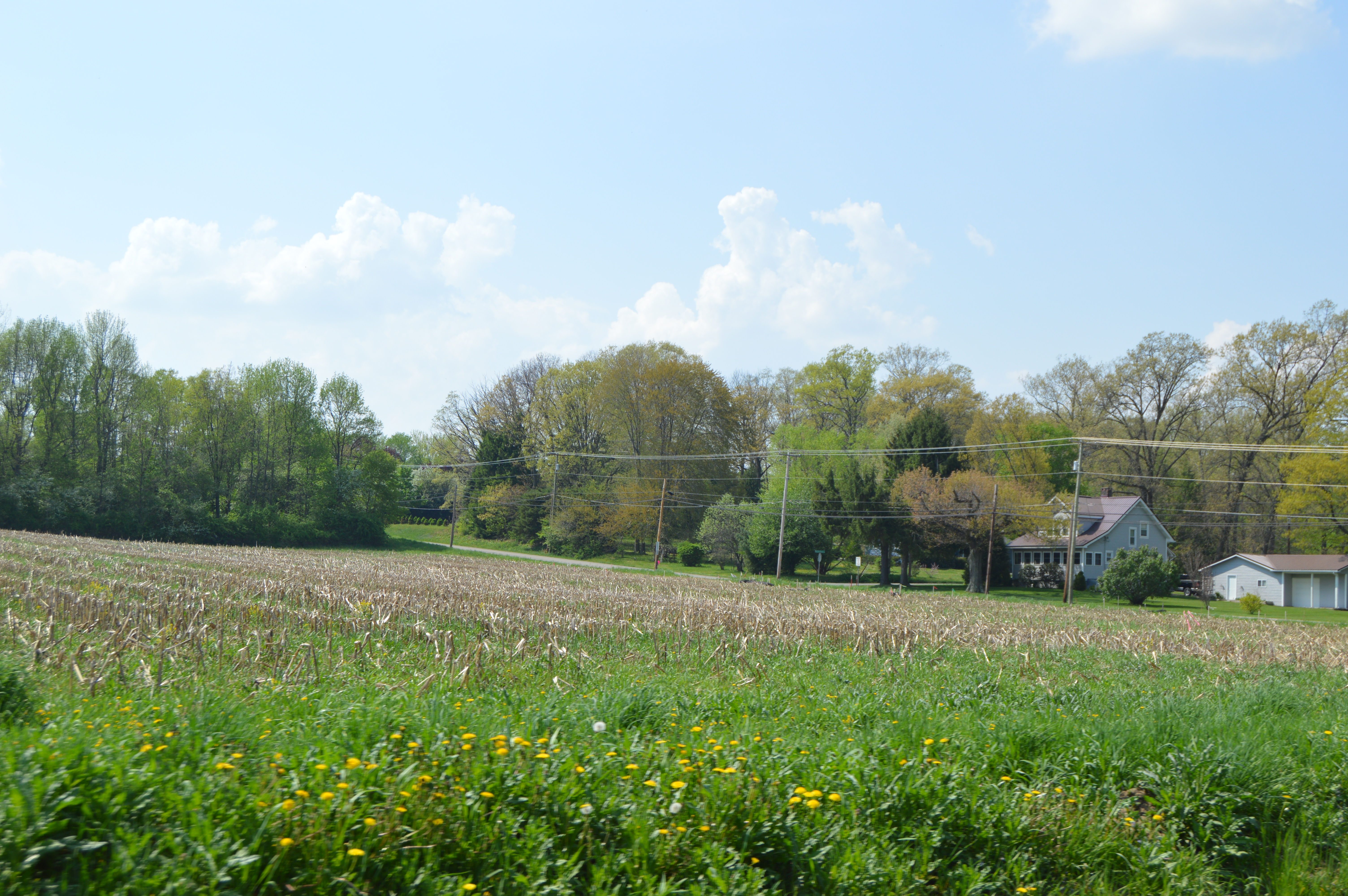 Looking west across fields from Dick Road northwest of Butler in Franklin Township, Butler County, Pennsylvania, United States.